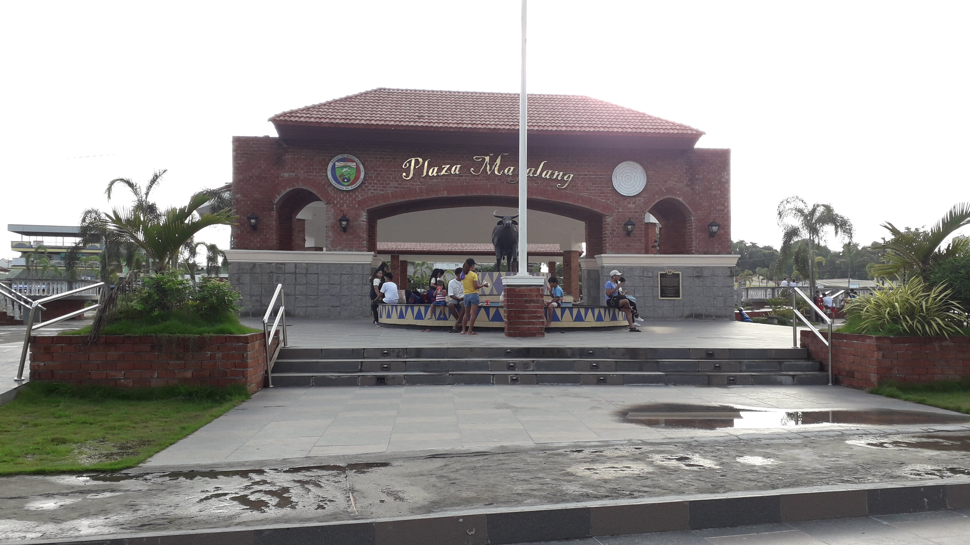 Plaza de Magalang also known as Plaza de la Libertad